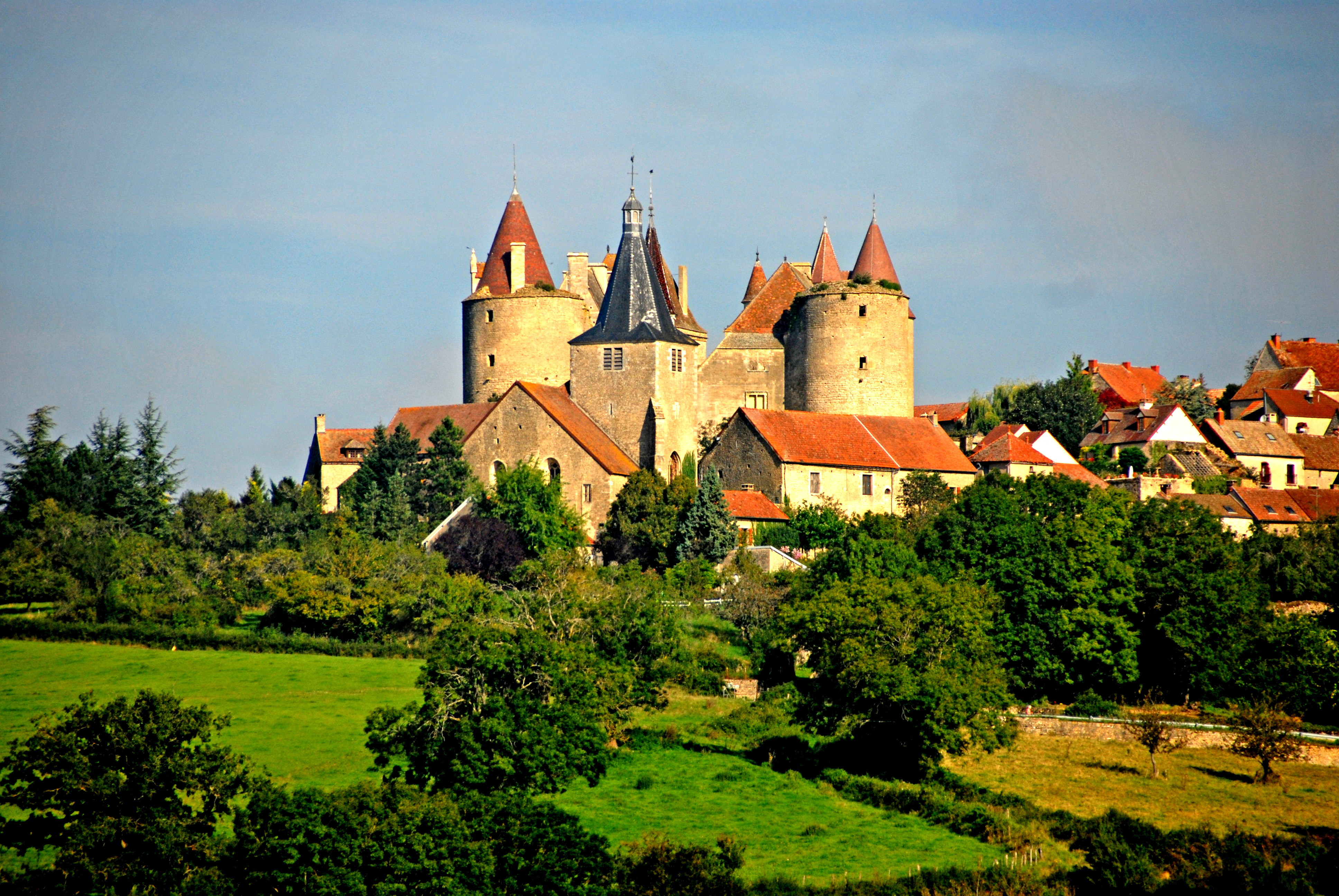 Châteauneuf, château and church, southern aspect